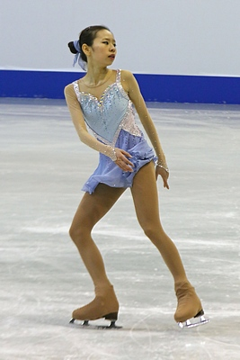 Photos – Junior World Championships 2014 – Ladies (Kim Na-hyun)